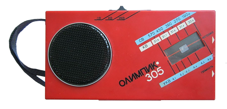 Olimpik-305, radio receiver (produced in Ukraine, Kazakhstan (USSR))